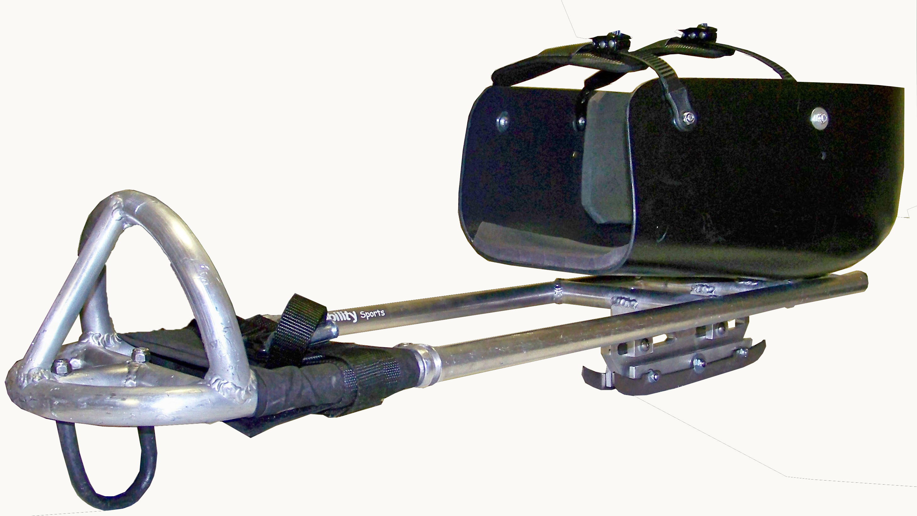 ice hockey sled manufactured by mobility sports